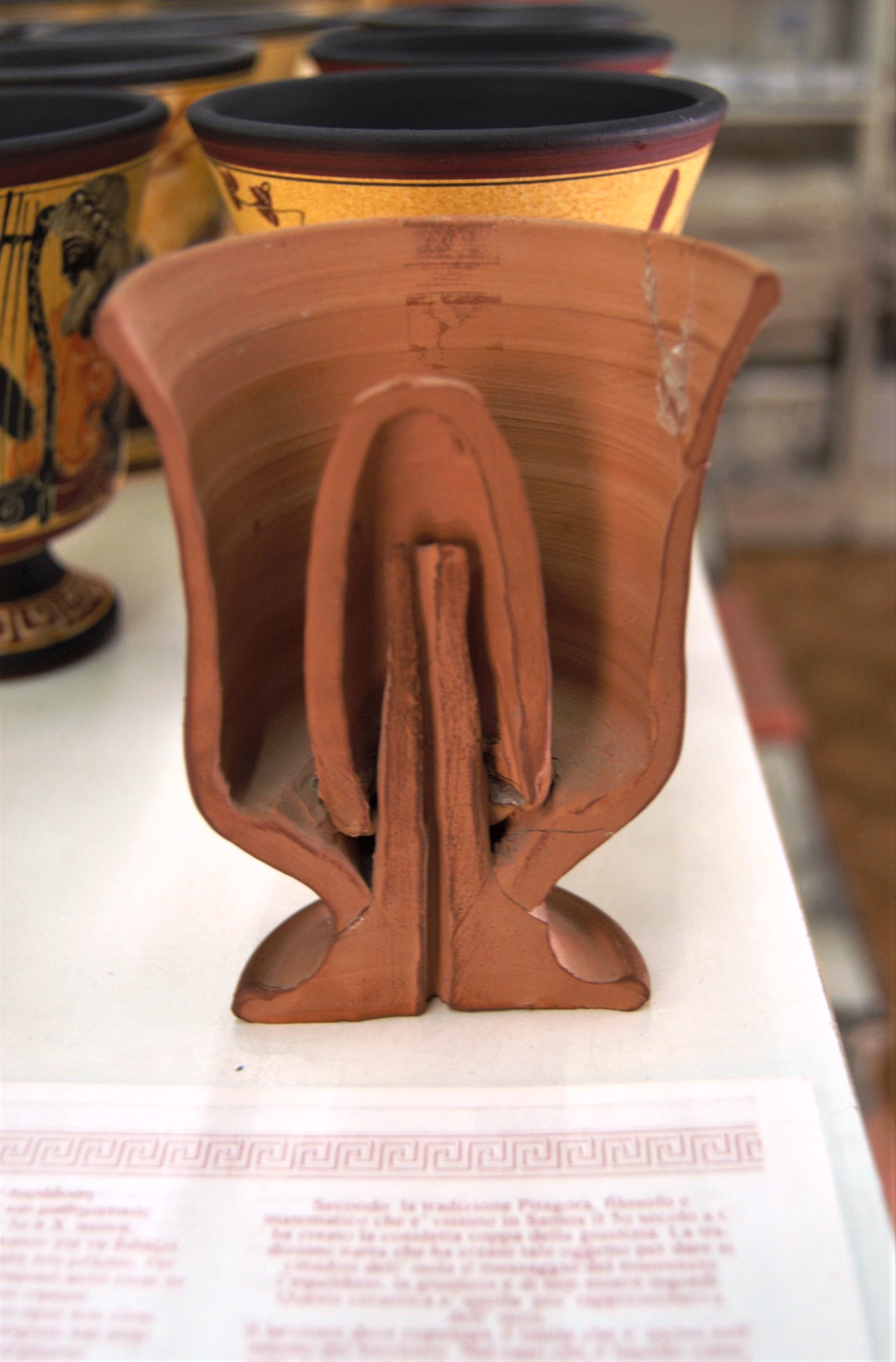 Cross section of a Pythagorean cup displayed at a shop in Samos (Greece).